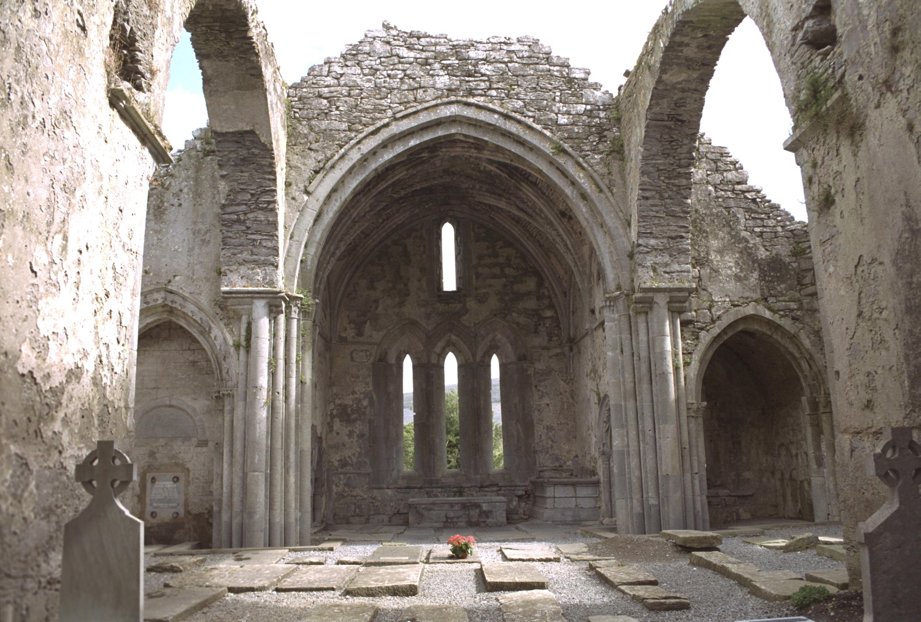 Corcomroe Abbey, County Clare, Ireland Crossing and presbytery